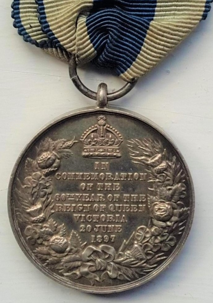 Victoria Diamond Jubilee Medal 1897, reverse